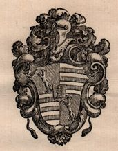 Volpi's mark